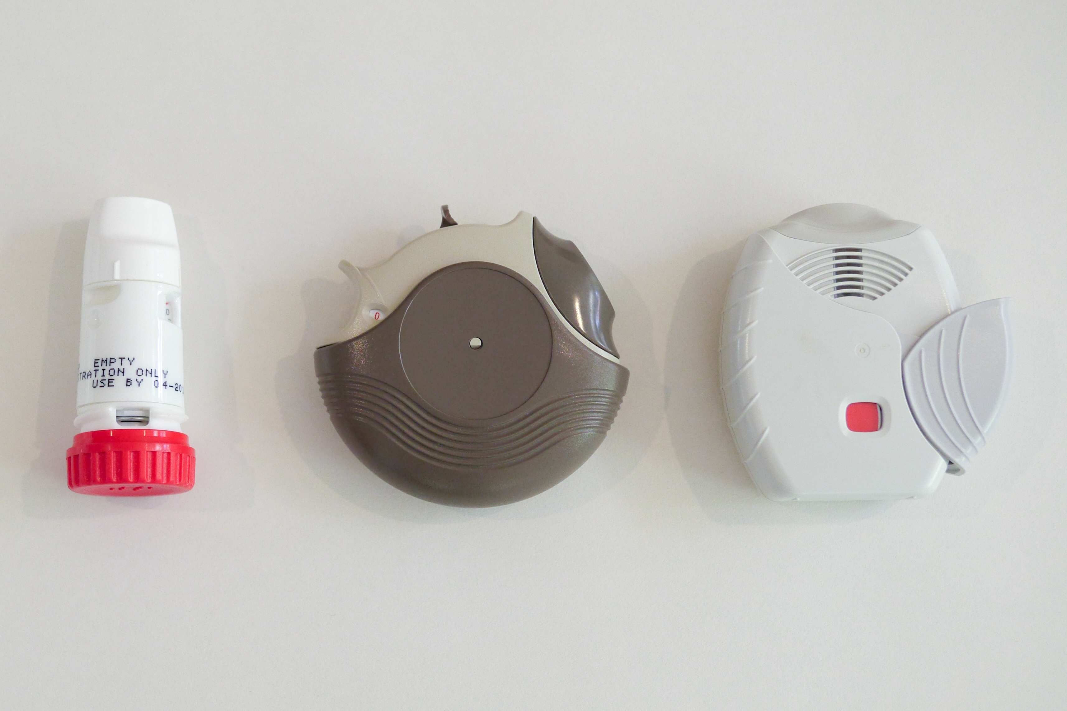 A photograph of three different types of dry powder inhalers used to deliver medicines in respiratory diseases such as asthma. From left to right: Turbuhaler, Accuhaler and Ellipta devices.